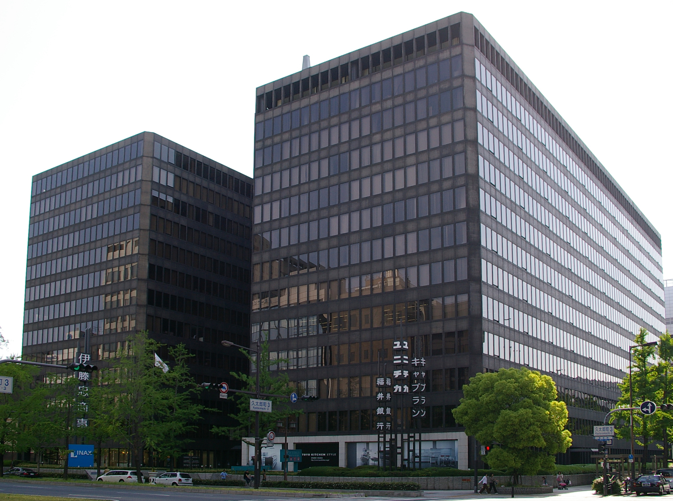 Photograph of Itochu Building (left) and Osaka Center Building in Chuo-ku, Osaka, Osaka Prefecture, Japan.